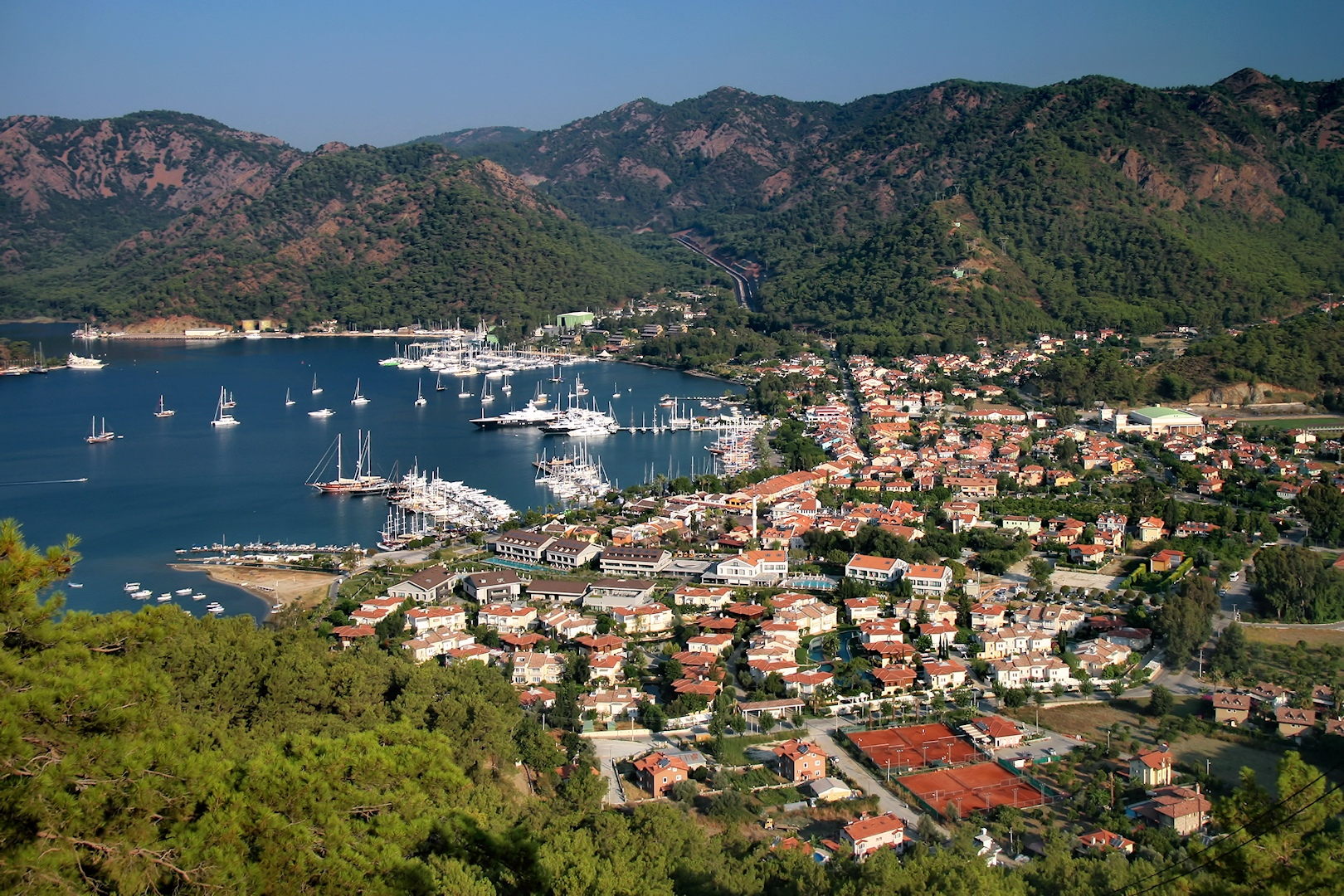 Göcek is a small town in Fethiye district in Muğla Province, Turkey.